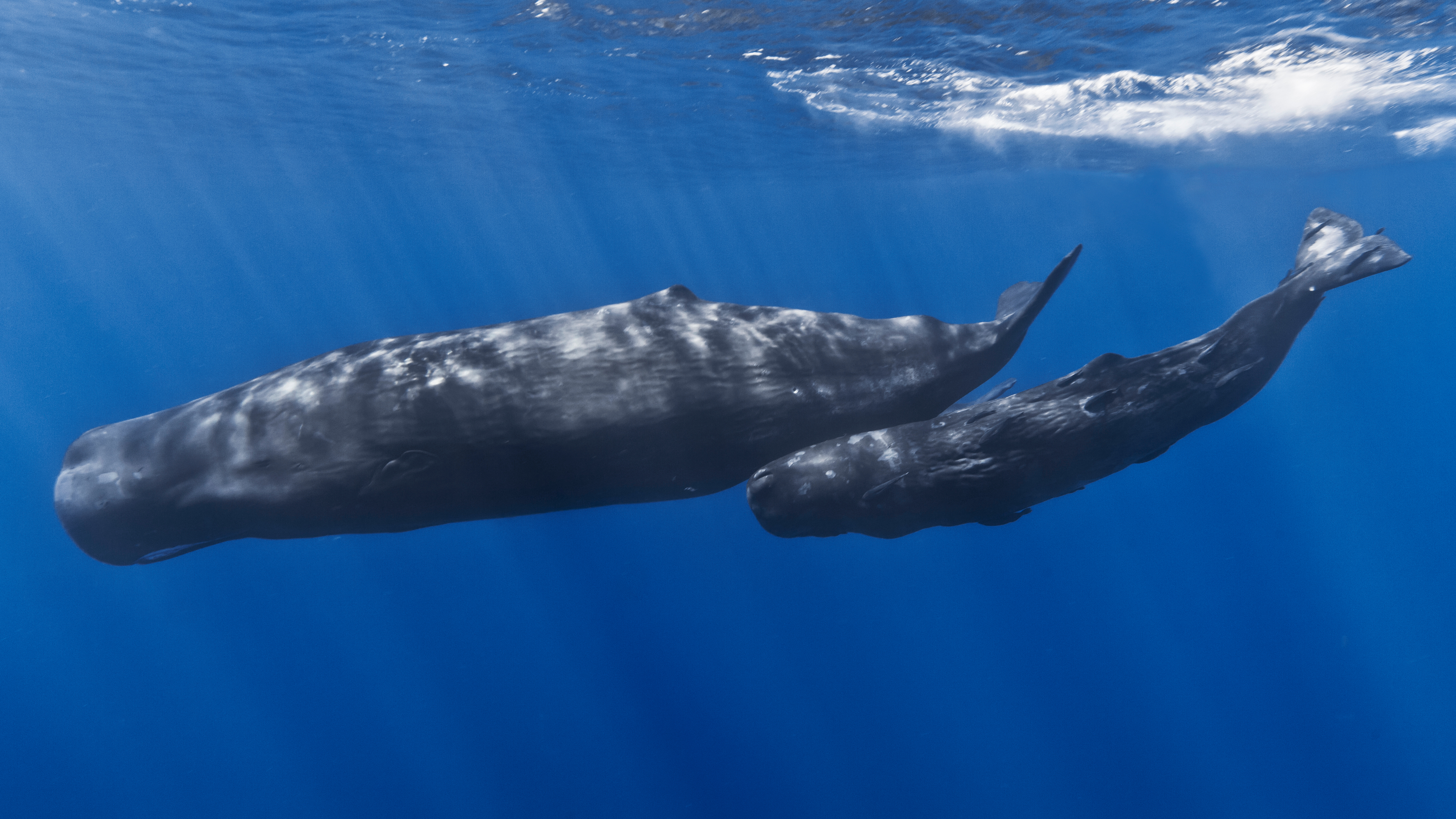 A mother sperm whale and her calf off the coast of Mauritius. The calf has remoras attached to its body.